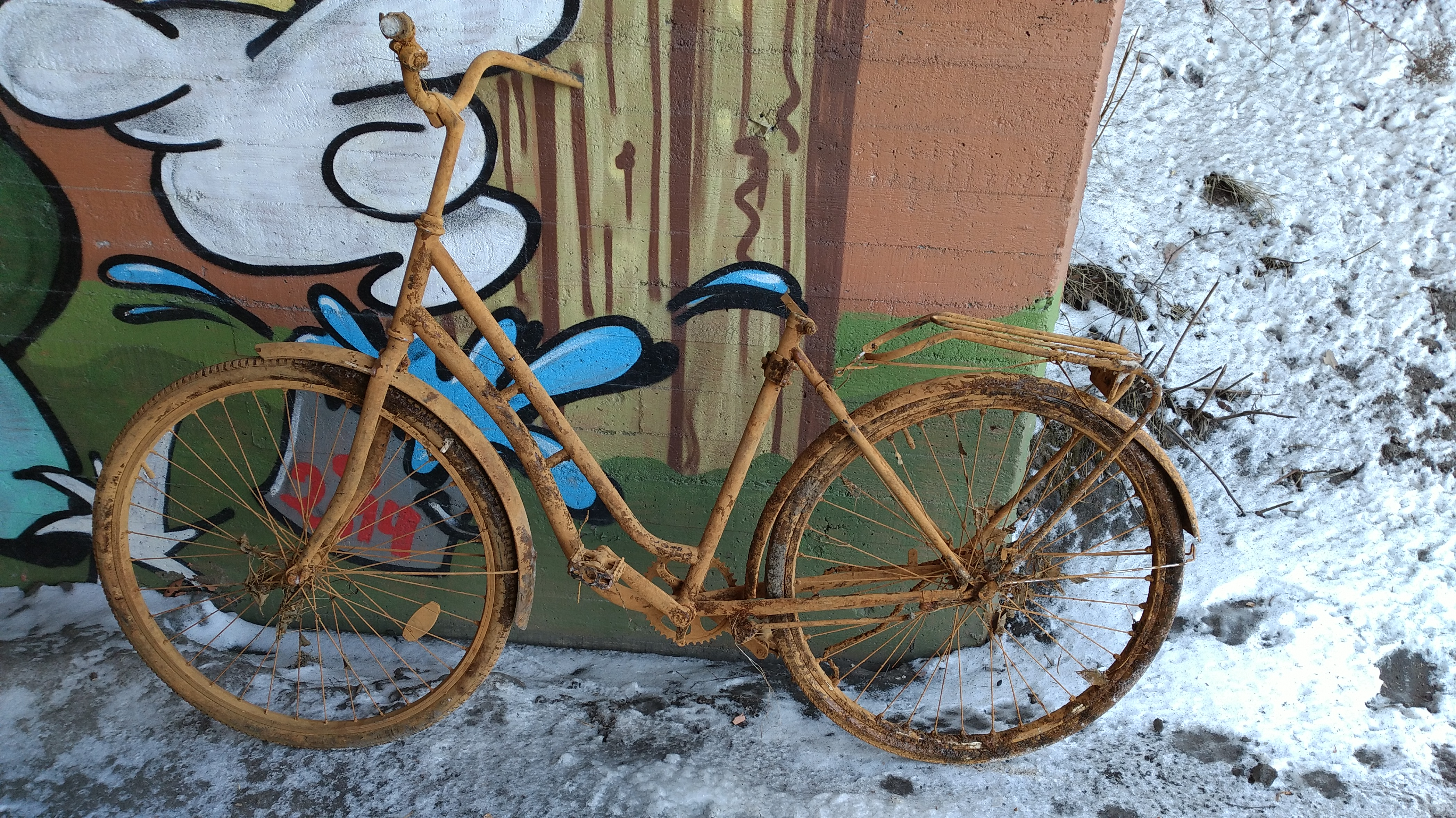 A bicycle thrown to the city creek in Oulu, Finland, and then picked up by someone – but not yet put for circulation.